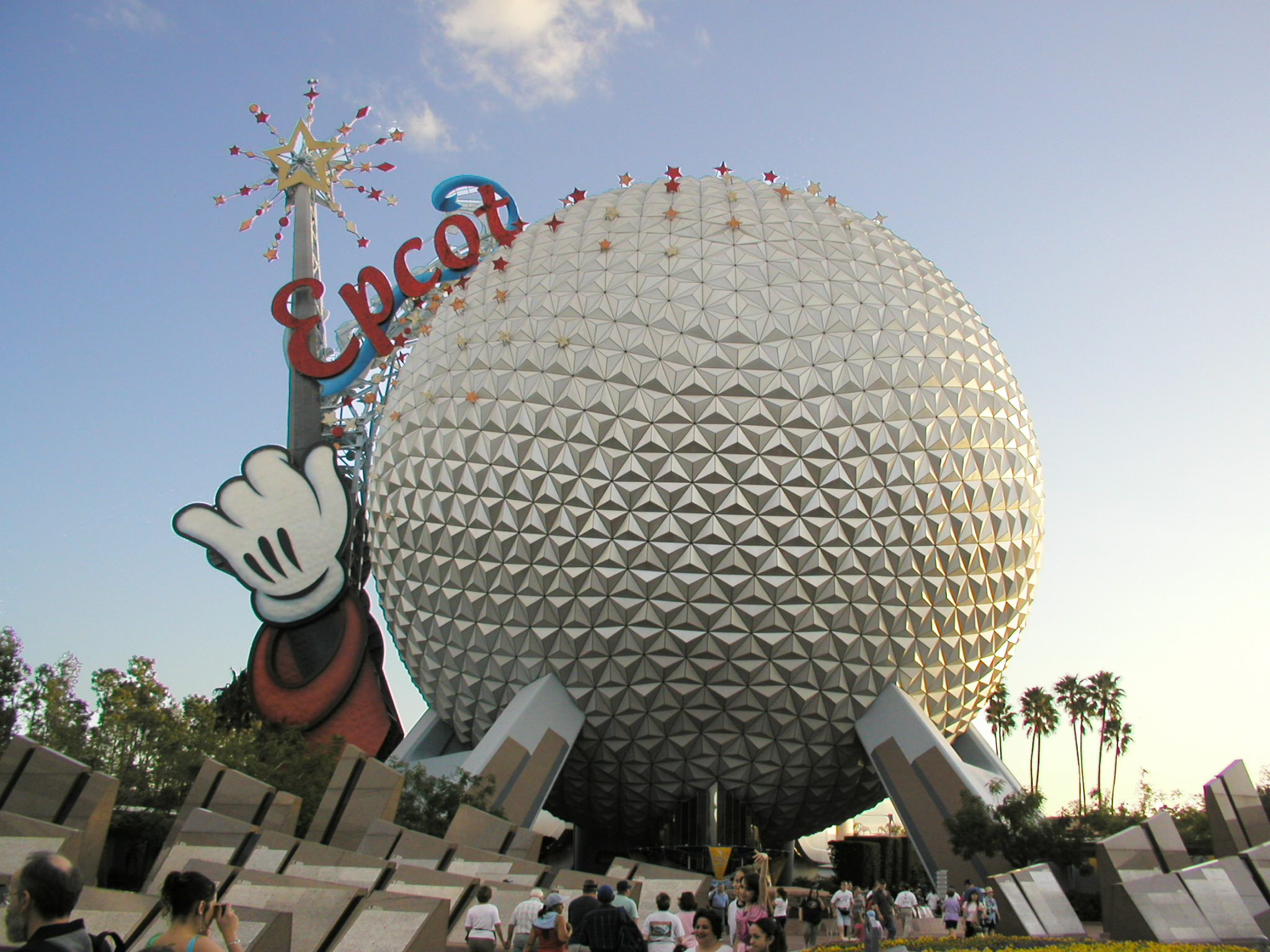 Spaceship Earth at Epcot in Walt Disney World.